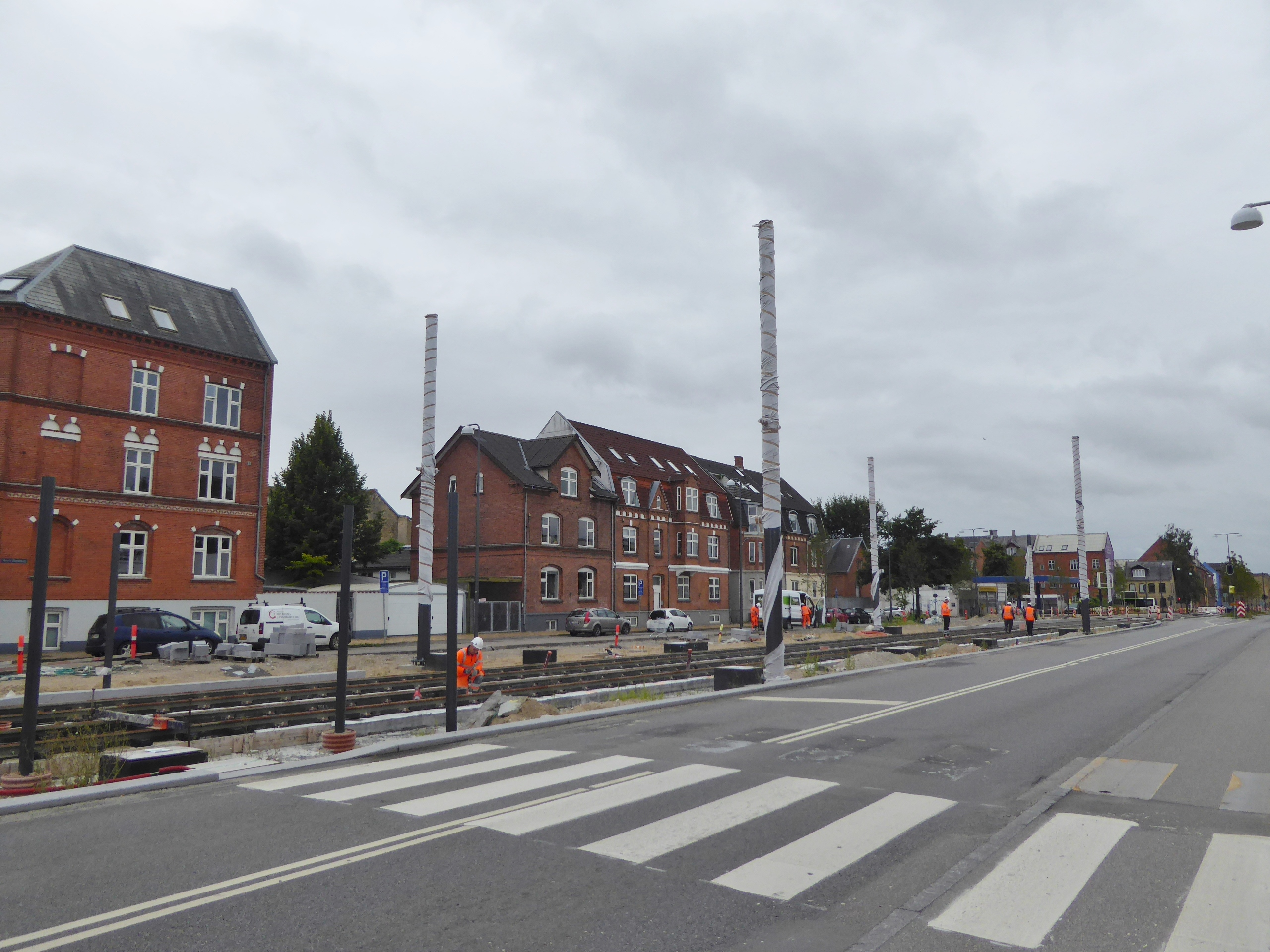 Construction of the light rail station Vestre Stationsvej of Odense Letbane on Vestre Stationsvej in Odense in Denmark.